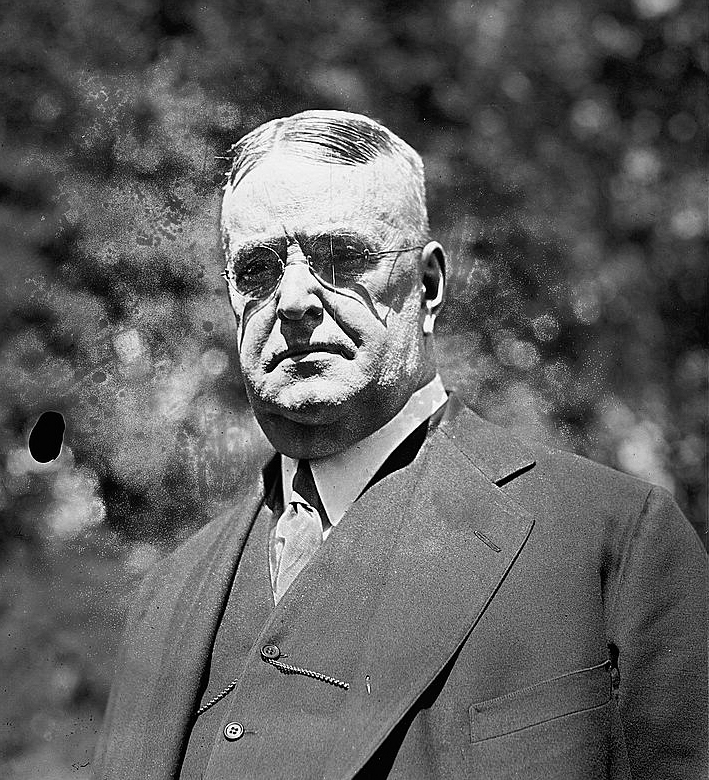 Ban Johnson